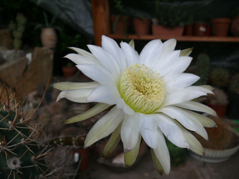 Echinopsis leucanthus